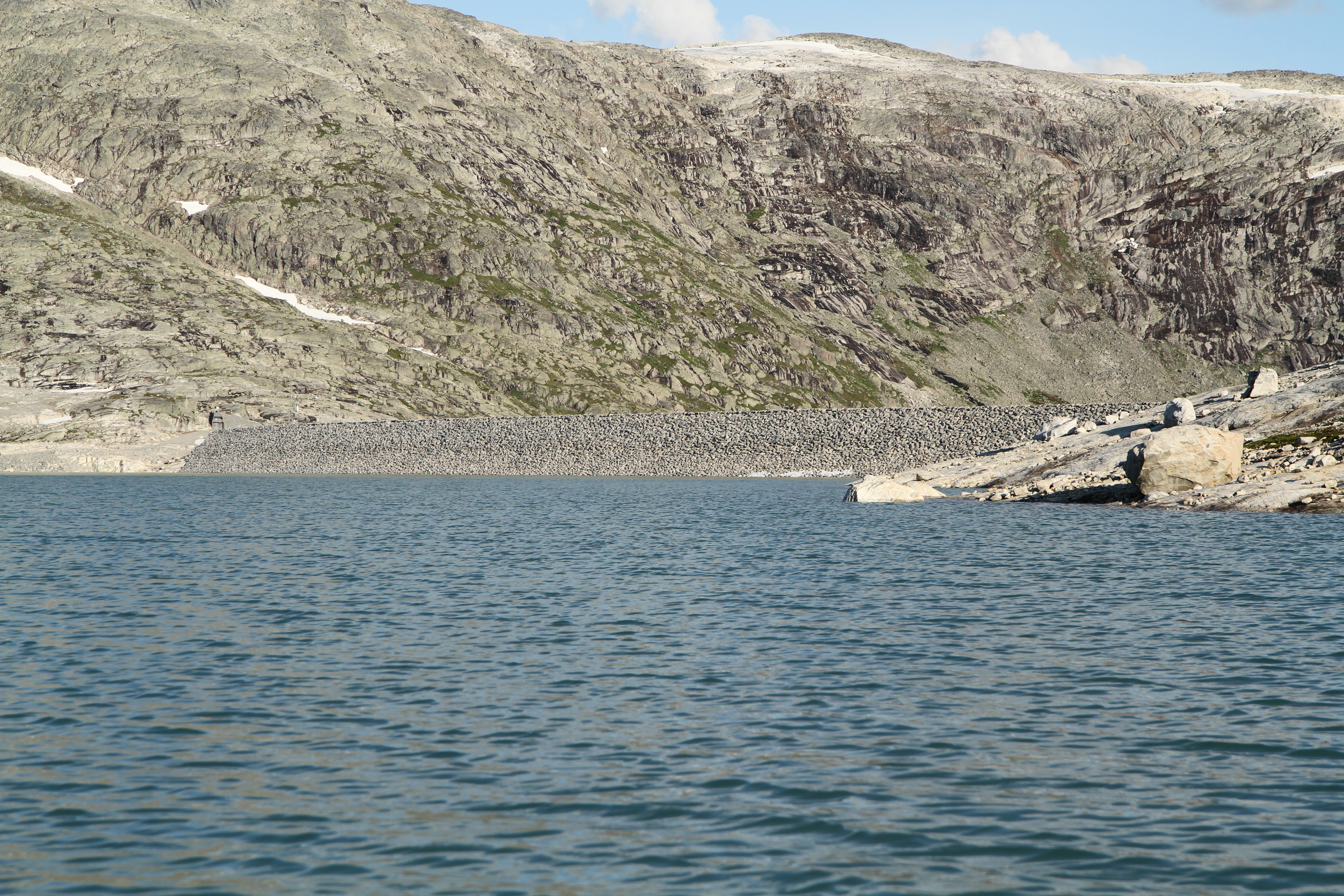 Styggvassdammen, the dam on the lake Styggevatnet in Jotunheimen, Norway.